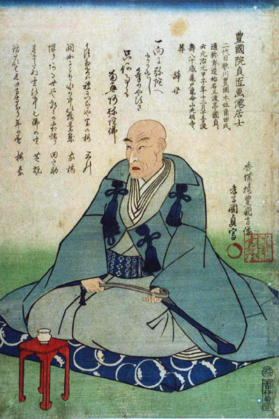 Japanese woodblock print portrait of Utagawa Kunisada (1786 - 1865) by his principal student Kunisada II (1823 - 1880)